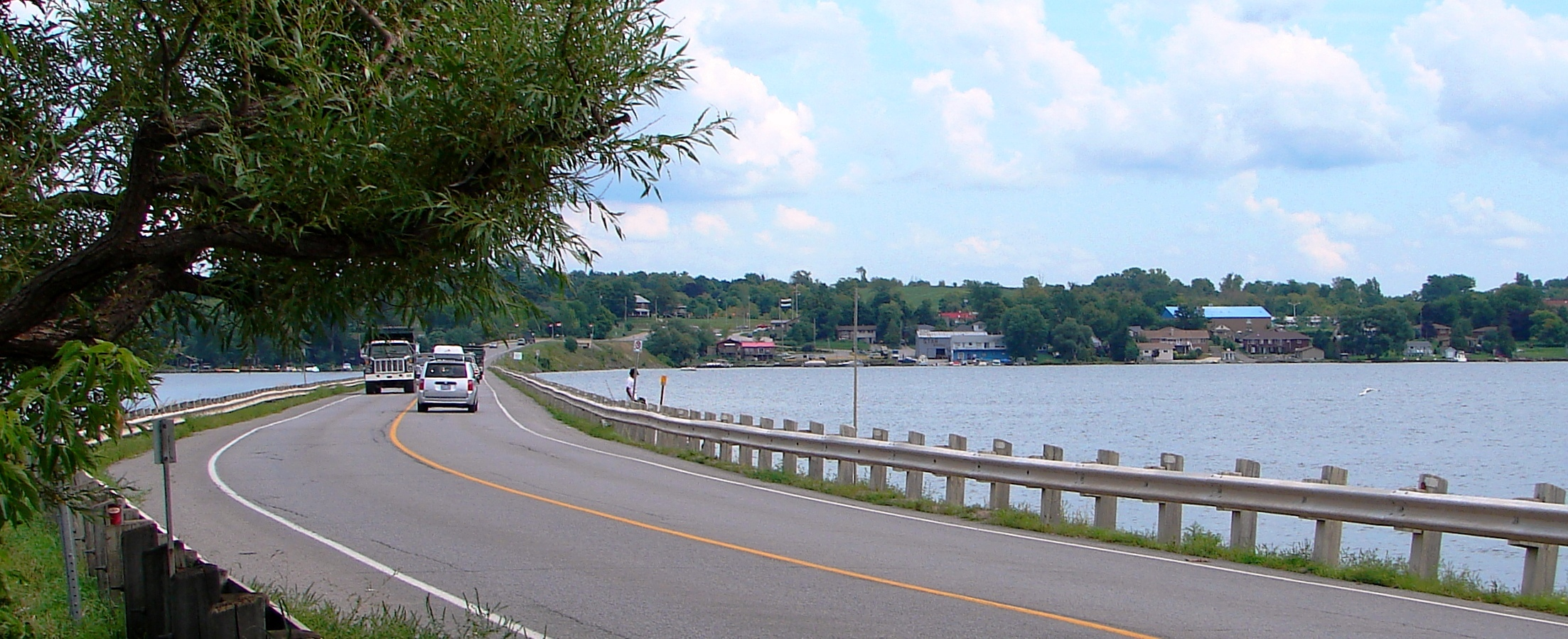 Lake Chemong with James A. Gifford Causeway and village of Bridgenorth on opposite shore (part of Smith-Ennismore-Lakefield Township), Ontario, Canada